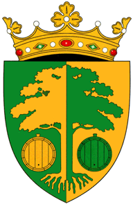 CoA of Rajon Strășeni